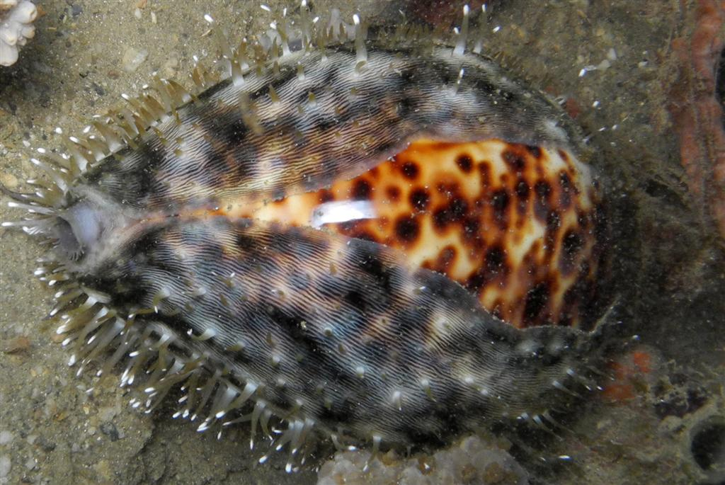 Tiger Cowrie